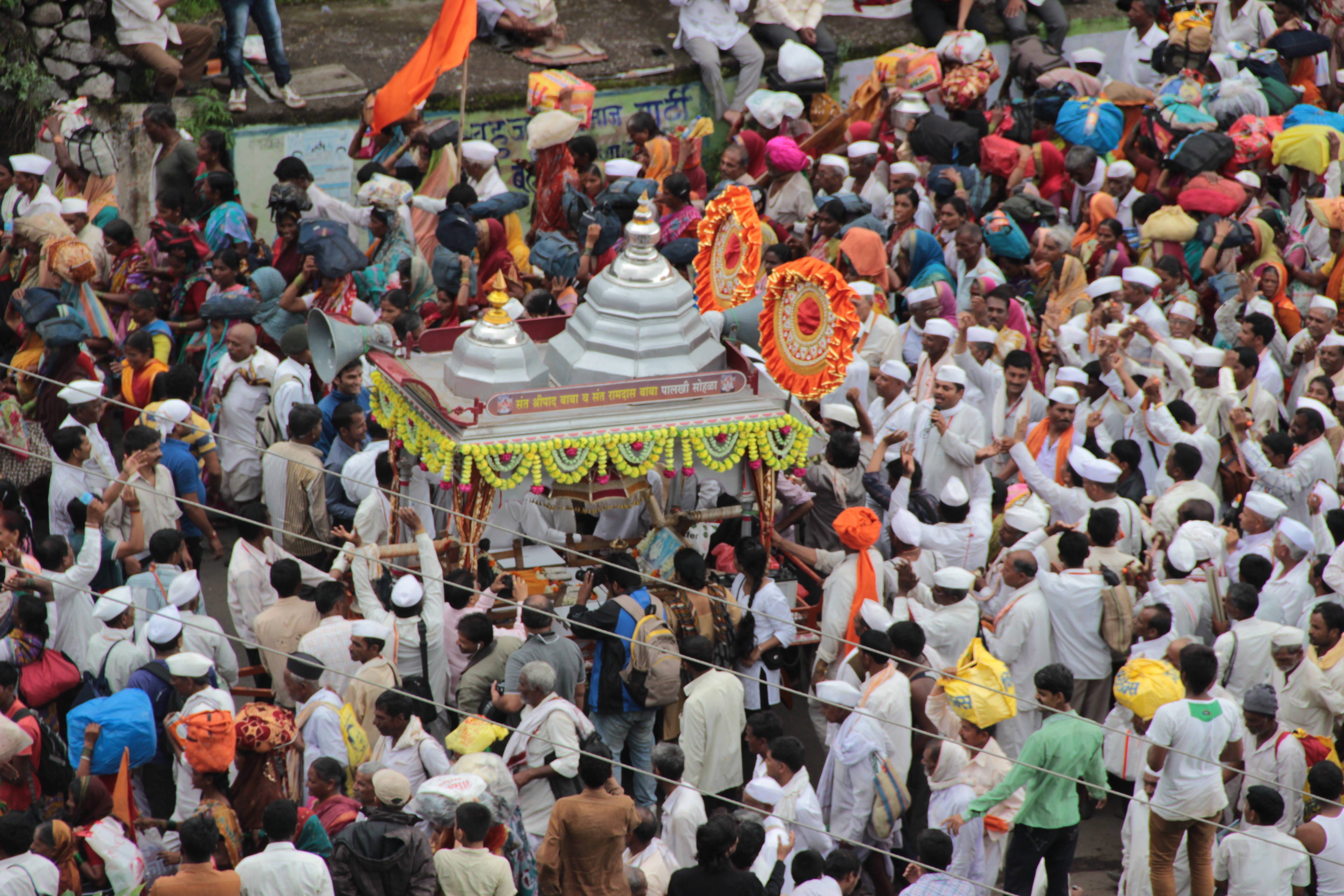 Palkhi